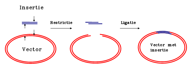 Klonierung eines PCR-Produkts in einen Vektor Ersteller: Andymuc